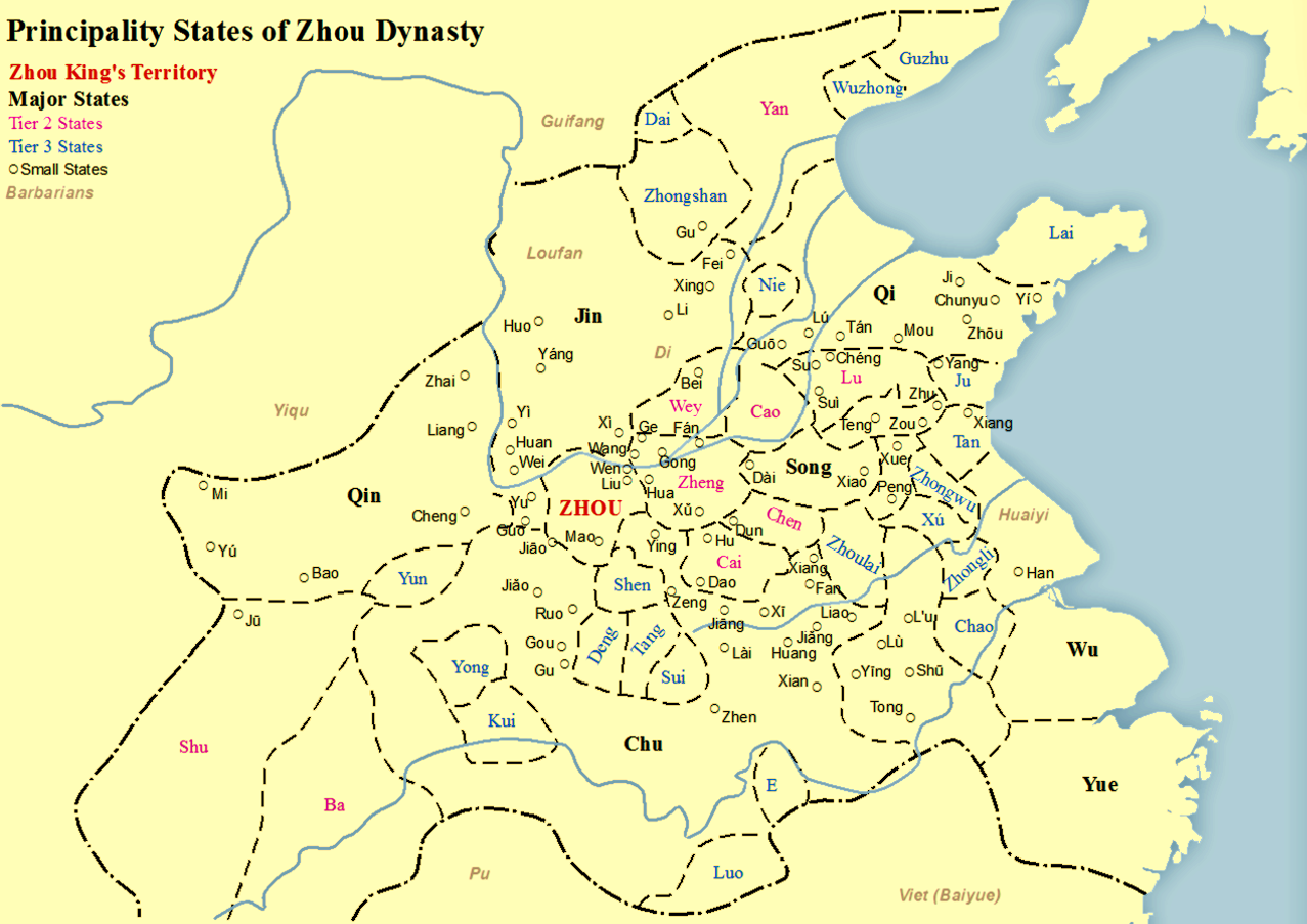 Map showing major principalities (vassal states) of Eastern Zhou dynasty 中文（中国大陆）: 东周列国，主要诸侯国示意地图